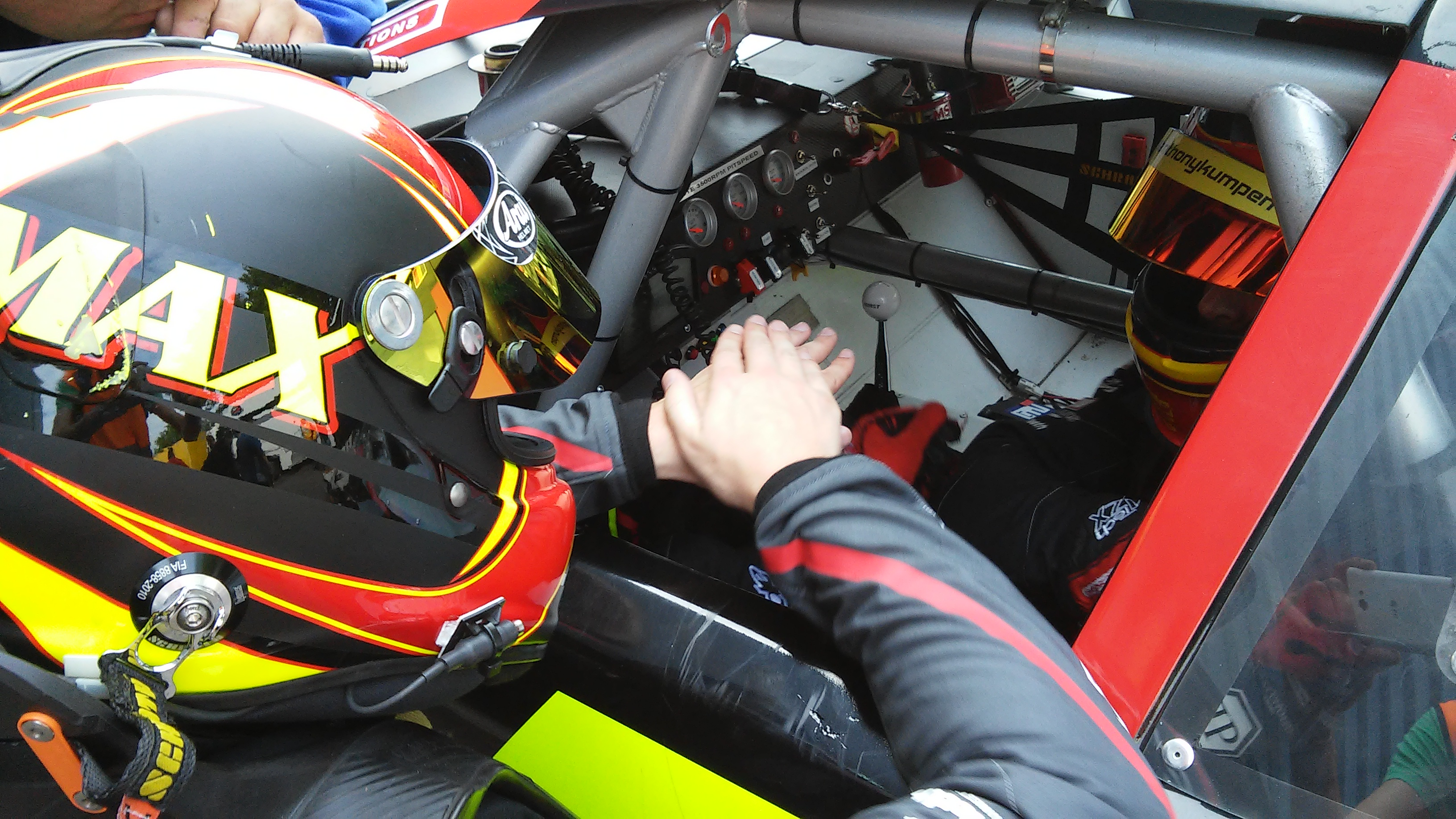 PK Carsport teammates Maxime Dumarey and Anthony Kumpen at Raceway Venray 2015.